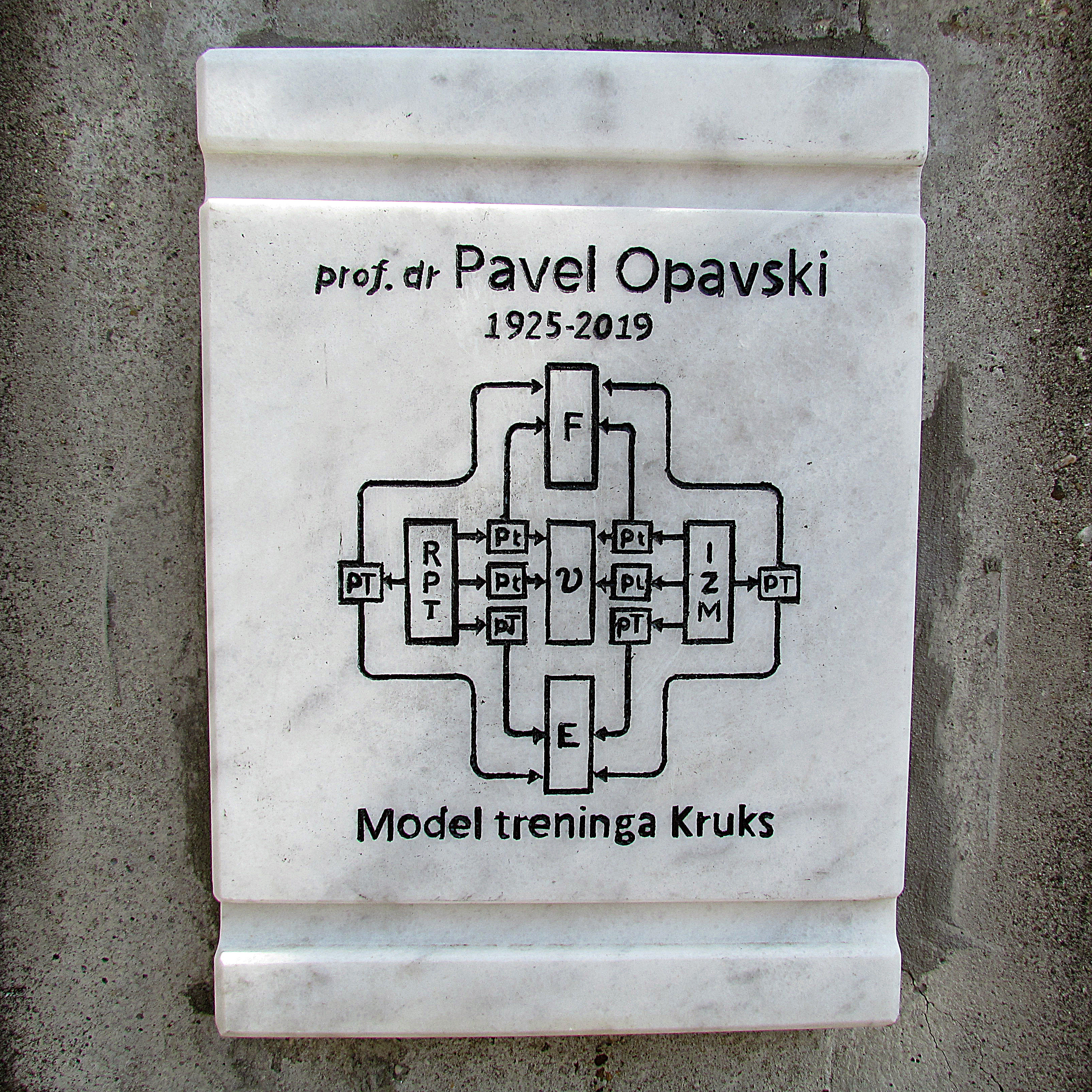 Tombstone of Pavel Opavski, Serbian sportsman, Belgrade New Cemetery